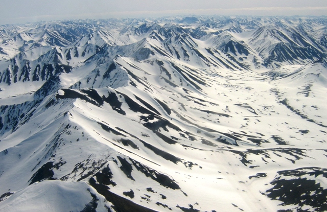 Koryak Mountains from helicopter